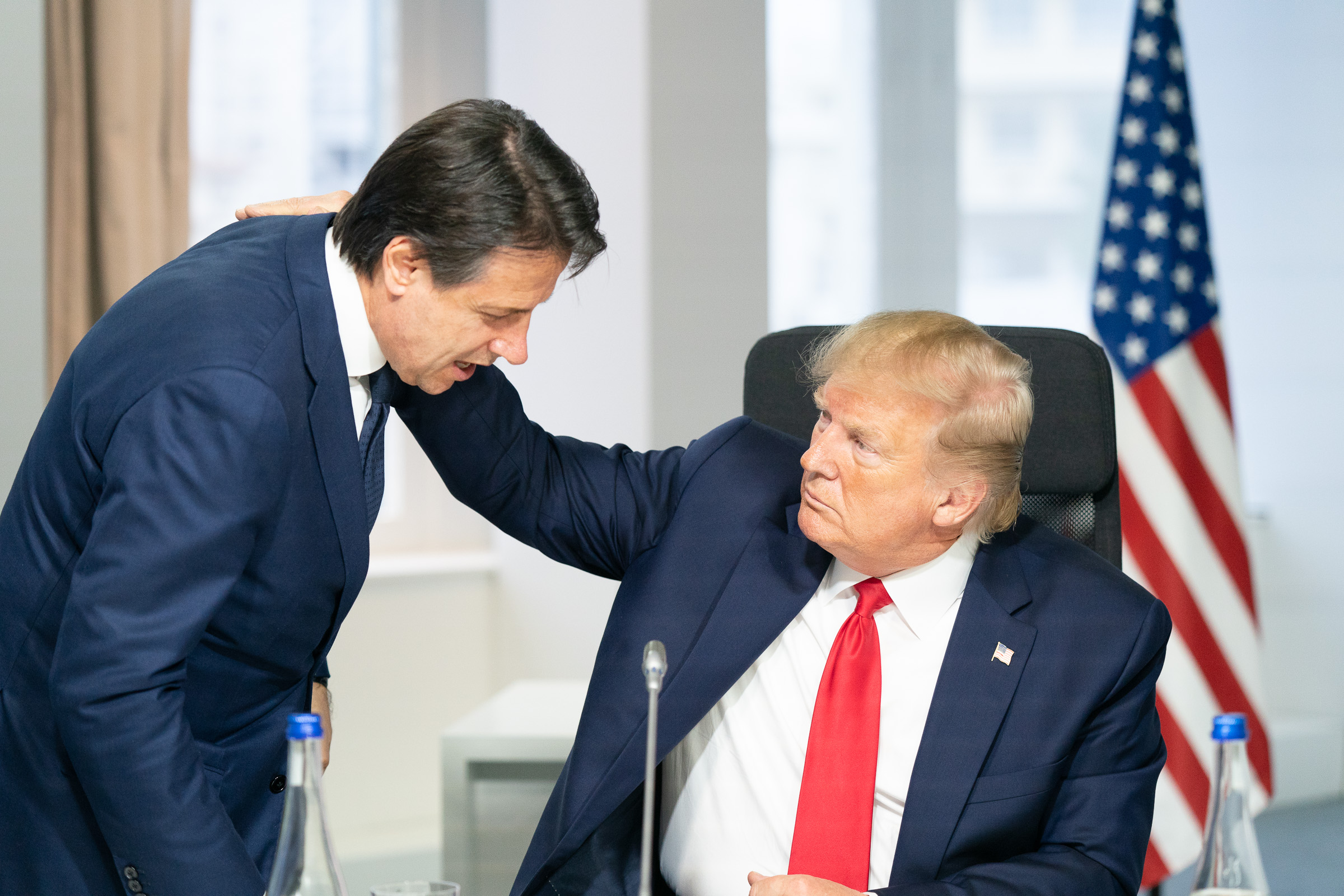 President Donald J. Trump, joined by G7 Leaders, attends the G7 Closing Session at the Centre de Congrés Bellevue Monday, Aug. 26, 2019, in Biarritz, France, site of the G7 Summit. (Official White House Photo by Shealah Craighead)